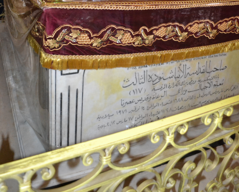 Pope Shenouda III shrine